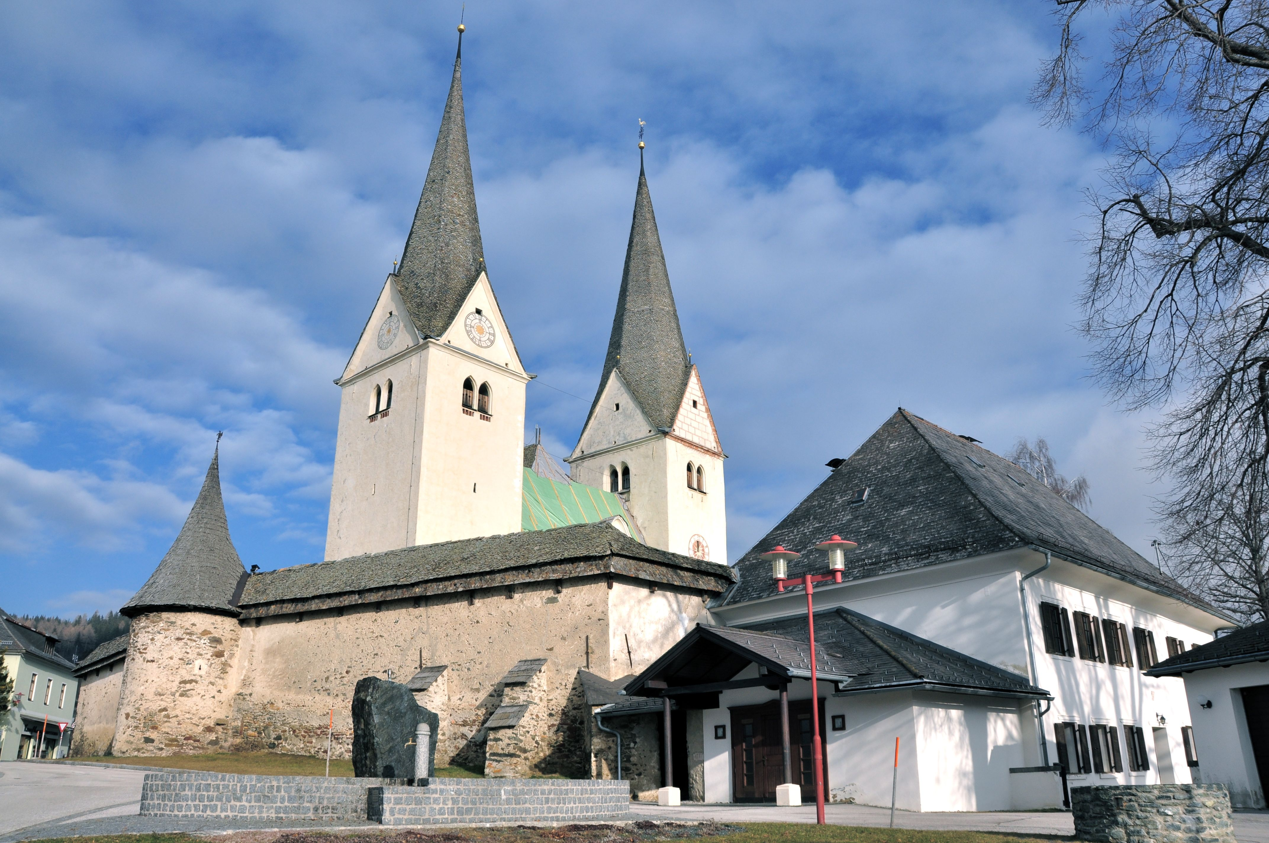 Parish and pilgrimage church Saint Martin with fortification system and rectory in Diex, municipality Diex, district Voelkermarkt, Carinthia / Austria / EU